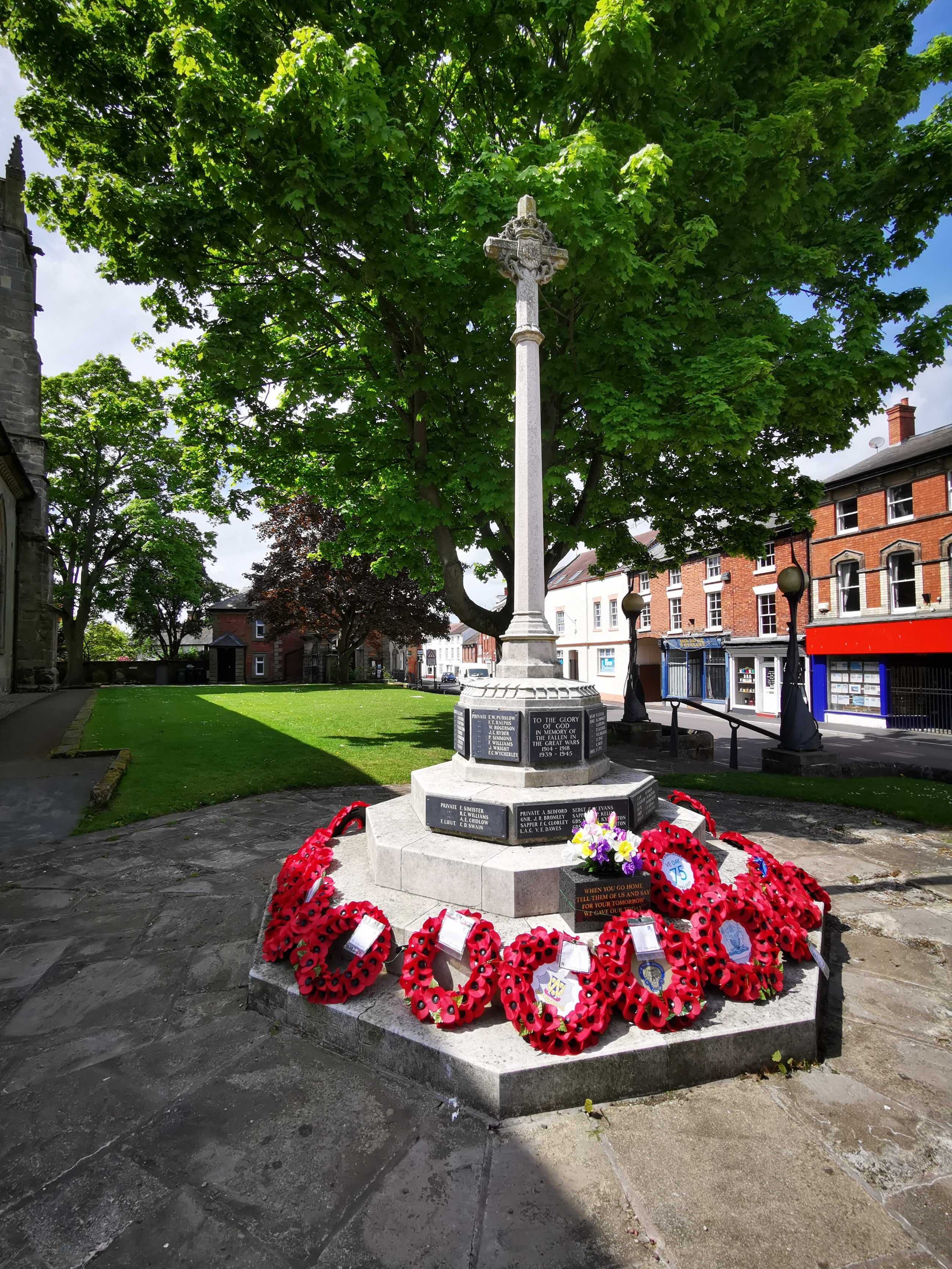 Wem War Memorial